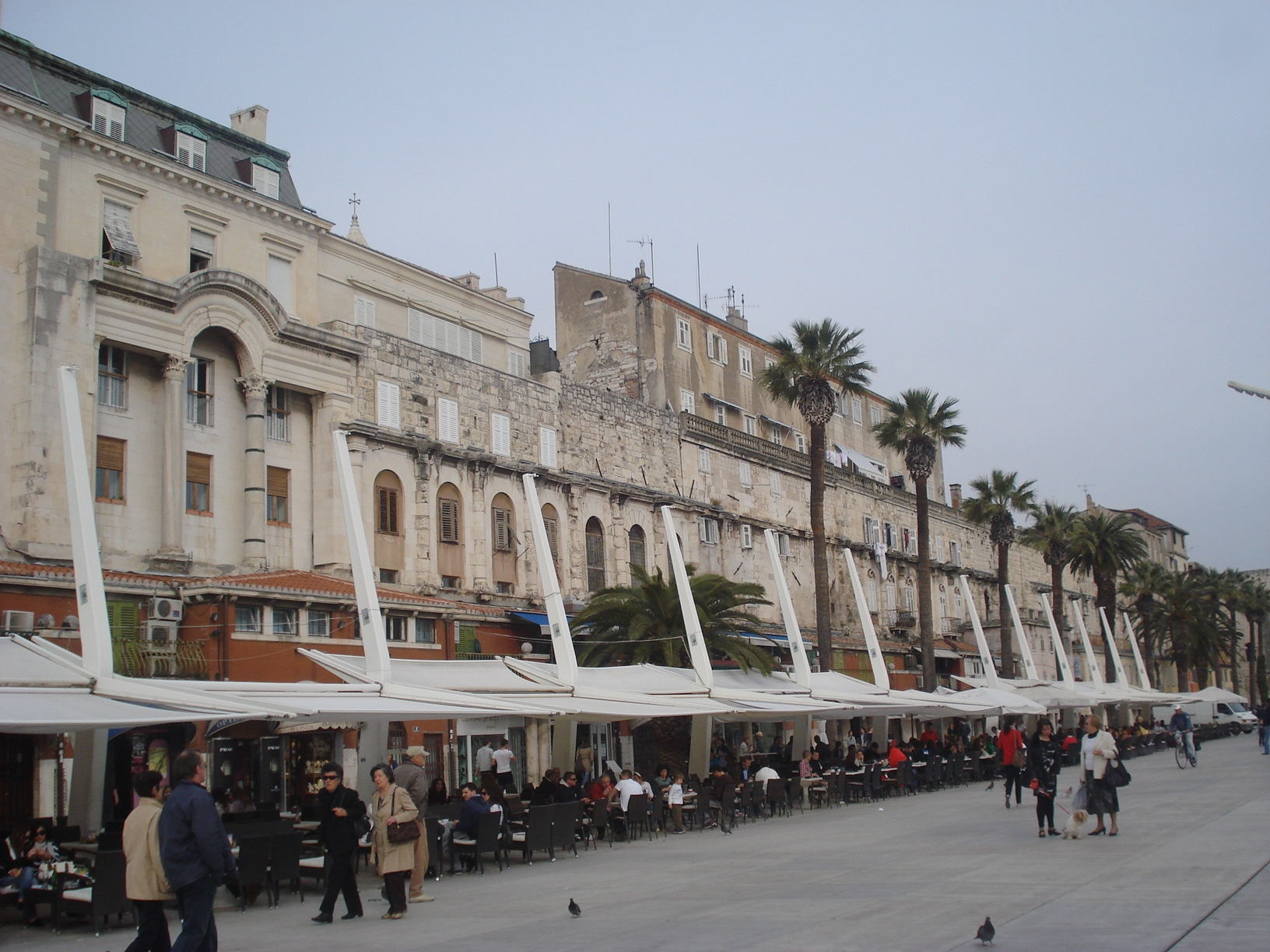 Diocletian's Palace in Split, Croatia - southwest view